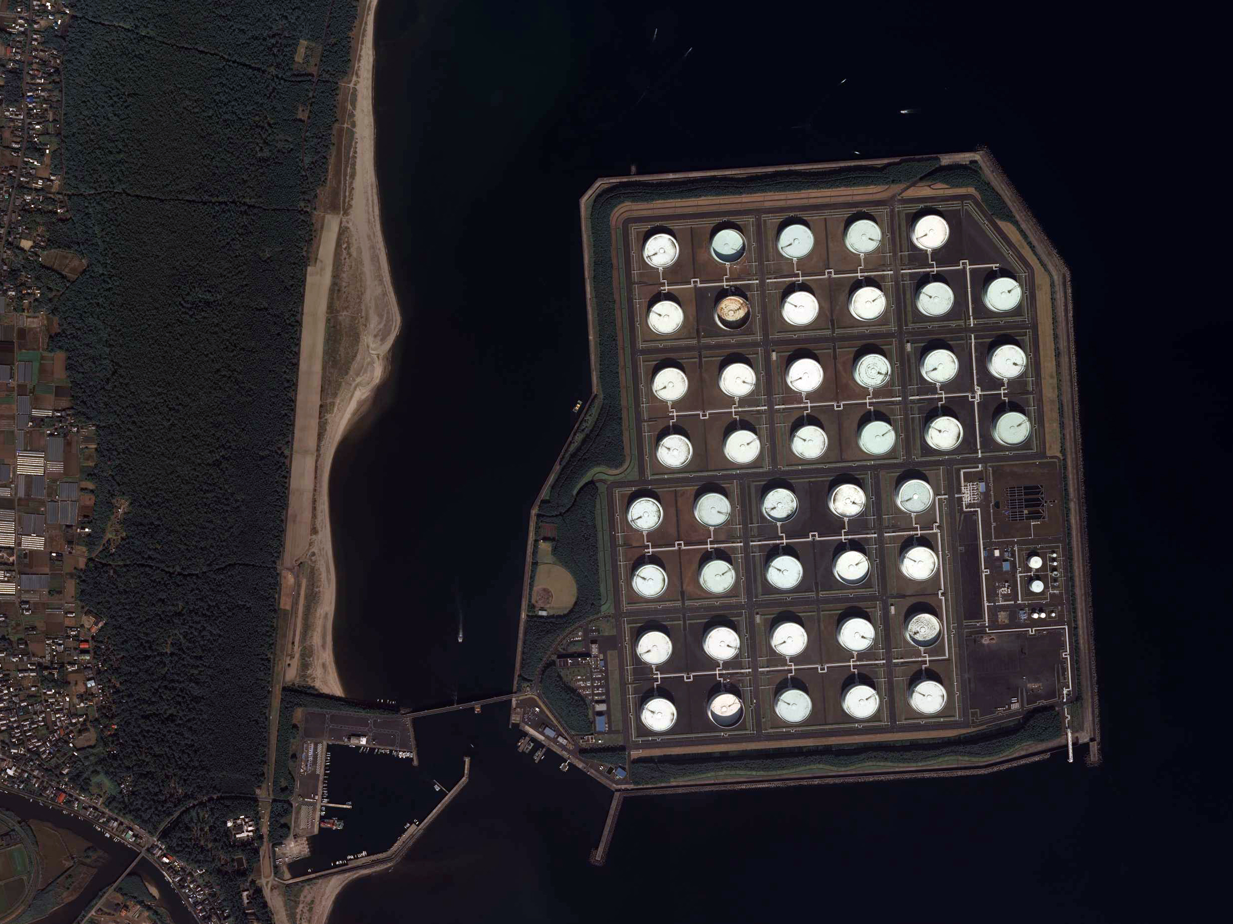 Aerial view of Shibushi national oil storage in Kagoshima Prefecture, Japan. This is a retouched picture, which means that it has been digitally altered from its original version. Modifications: Cropping & Color adjustment. Modifications made by Batholith.